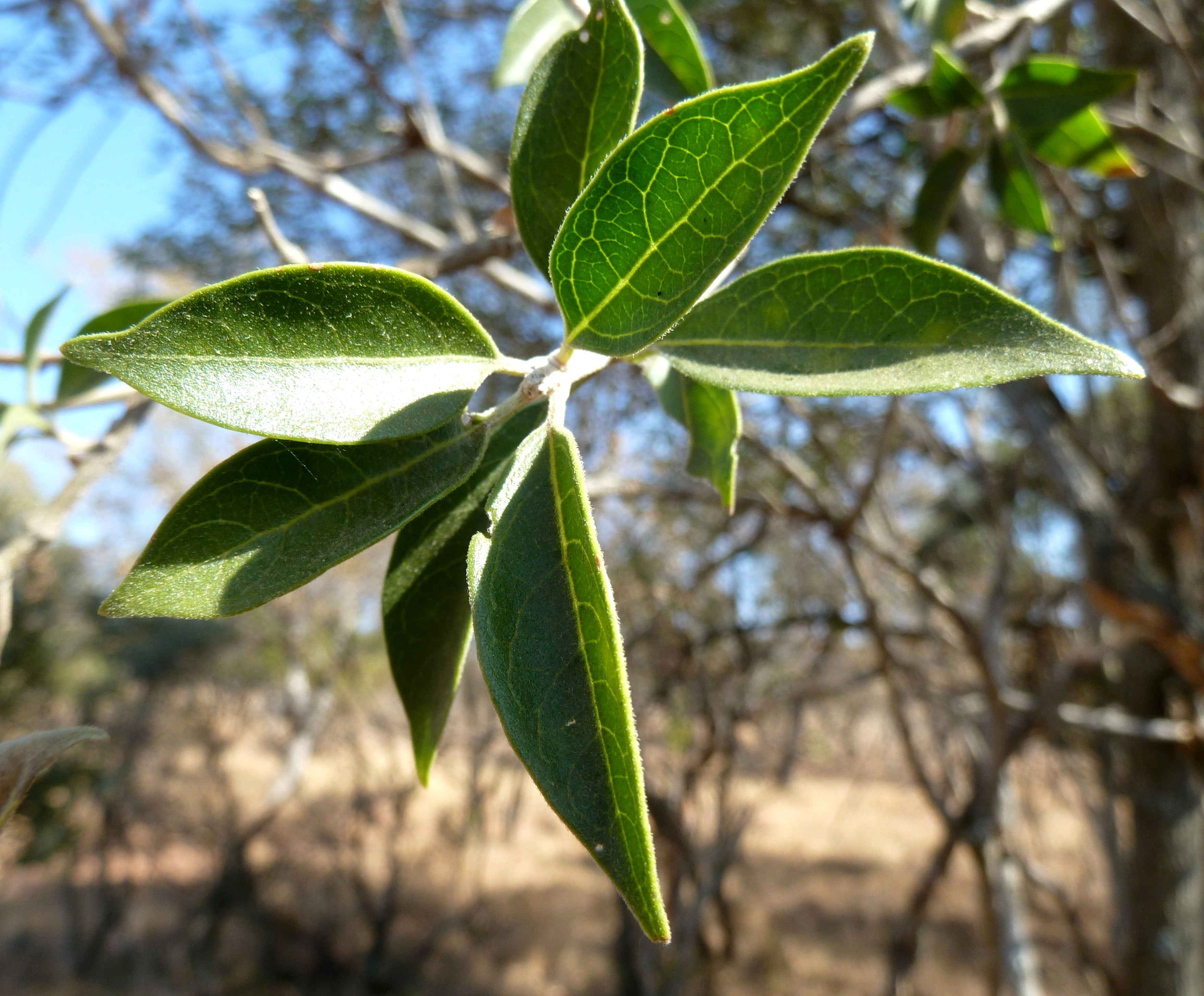 Foliage of a Tinderwood in the Waterberg, South Africa